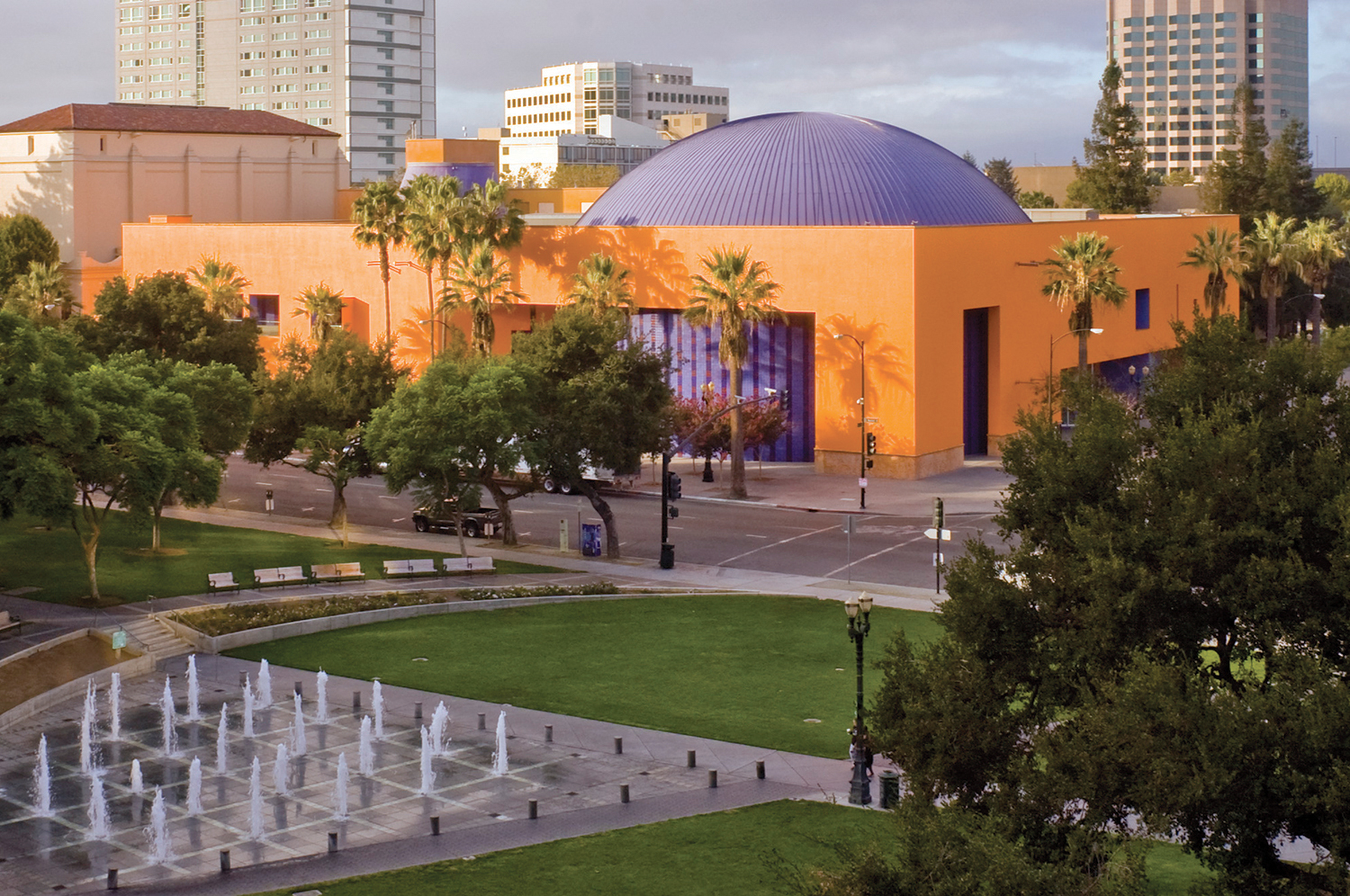 Image of the mango and azure building of The Tech Museum of Innovation in Downtown San Jose.